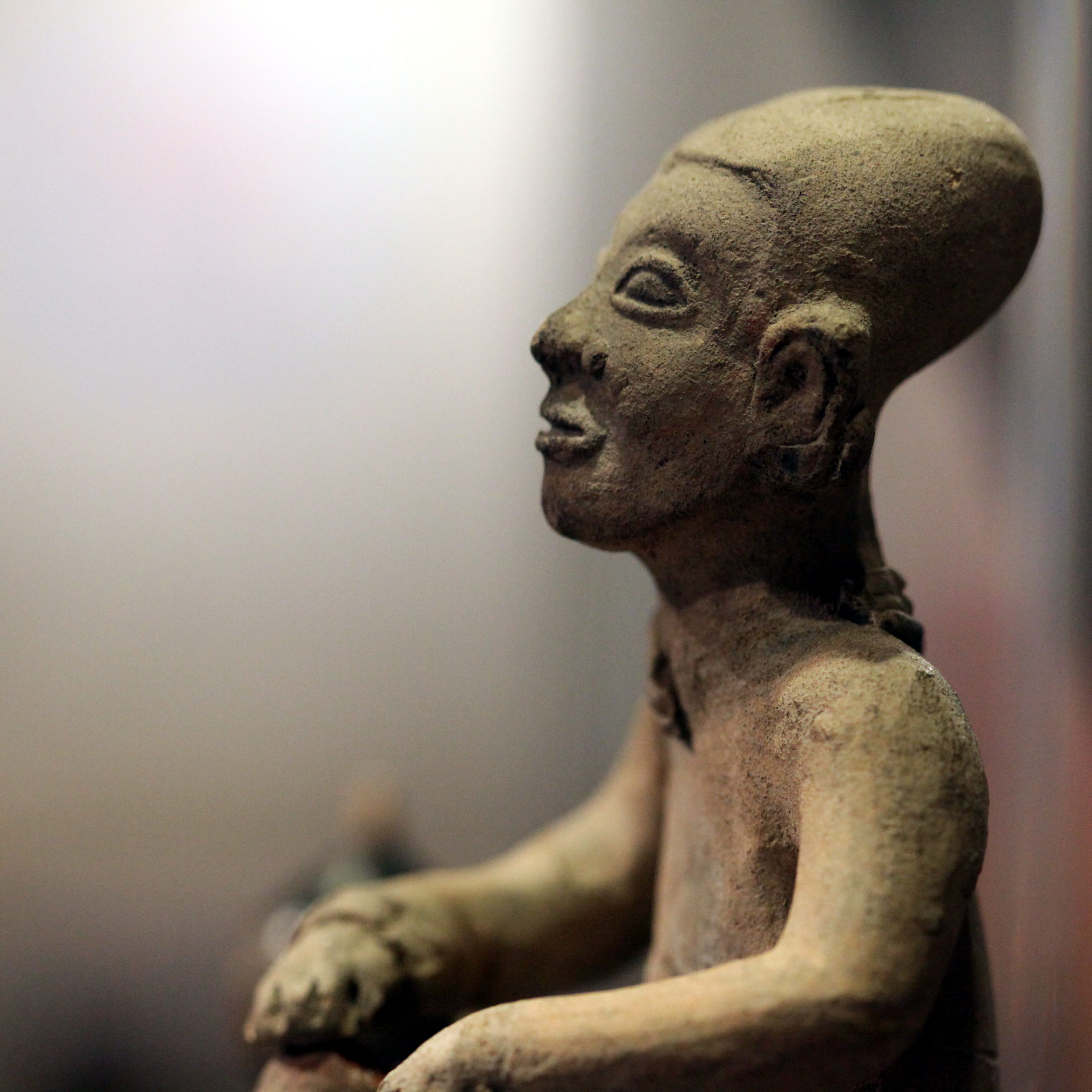 Shamanic figure sitting on a seat of power. La Tolita culture, Ecuador, circa 500 CE.